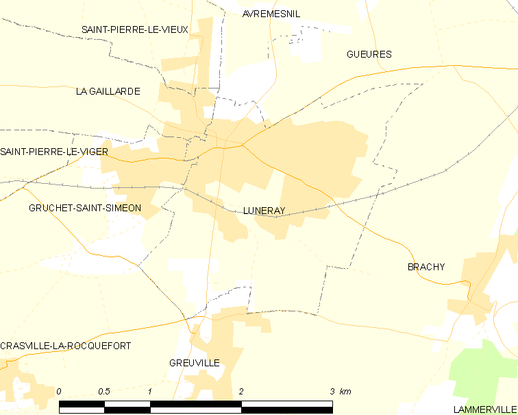 Map of French municipality Luneray